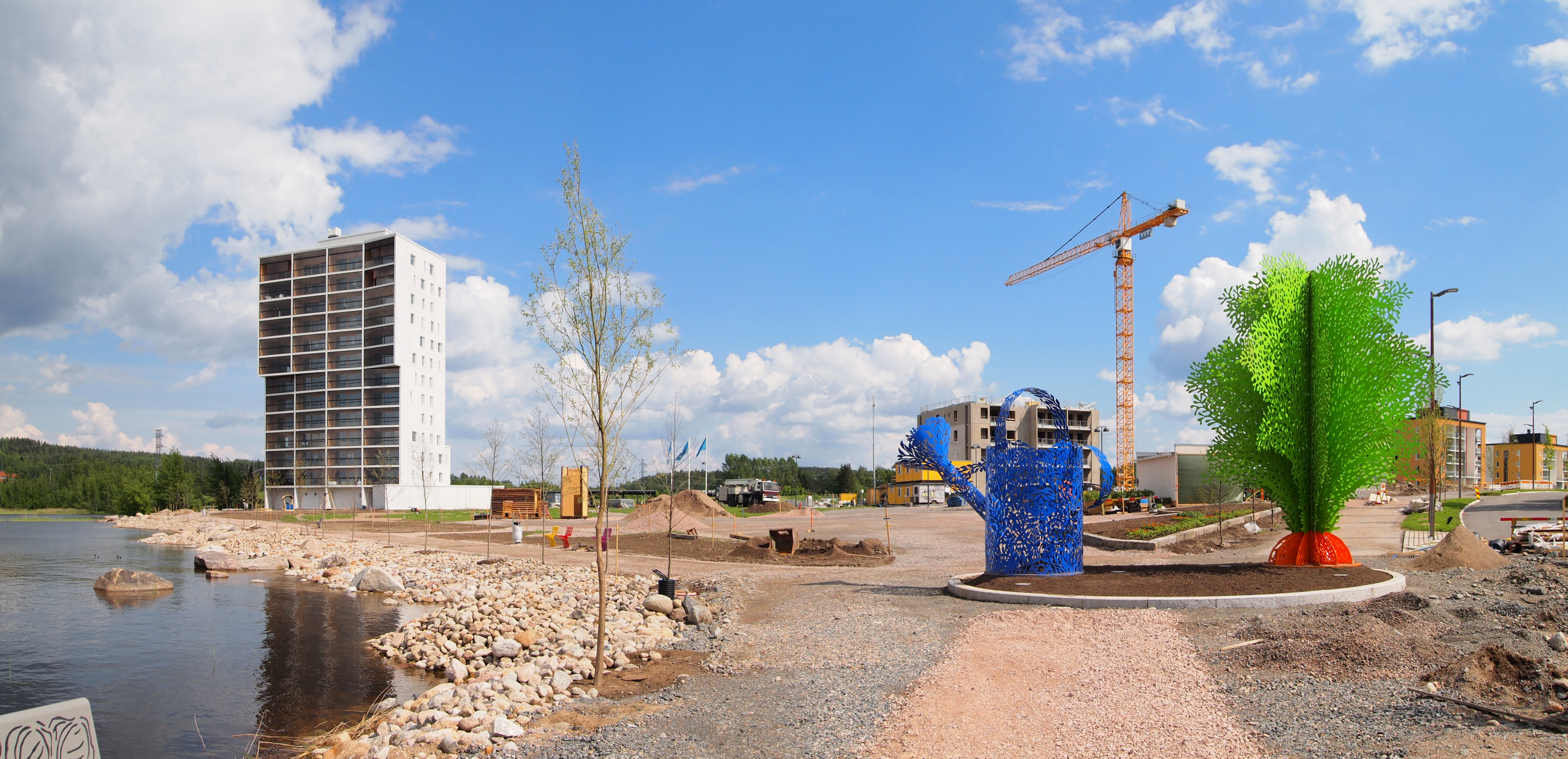 View in Äijälänranta, Jyväskylä. This photograph was taken with an Olympus E-PL1